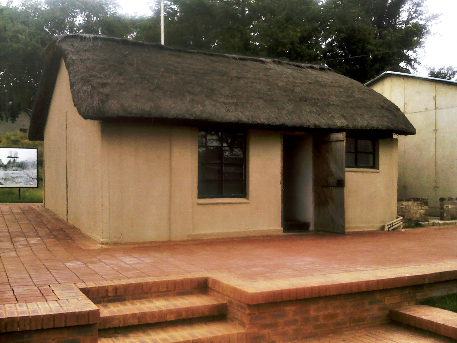 The thatched room at Liliesleaf Farm, Rivonia, where several ANC activists were meeting when the police raided the Farm in 1963 (Winston Avenue, Rivonia, Johannesburg)